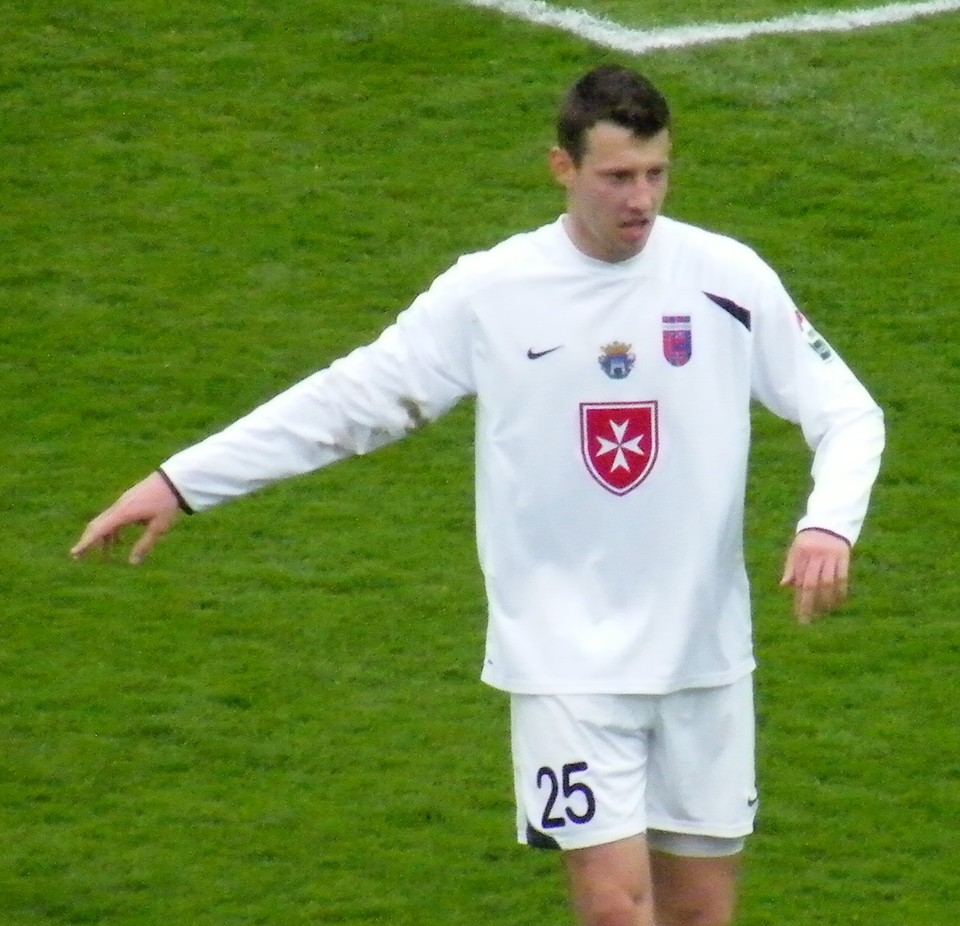 Ákos Elek Hungarian football player